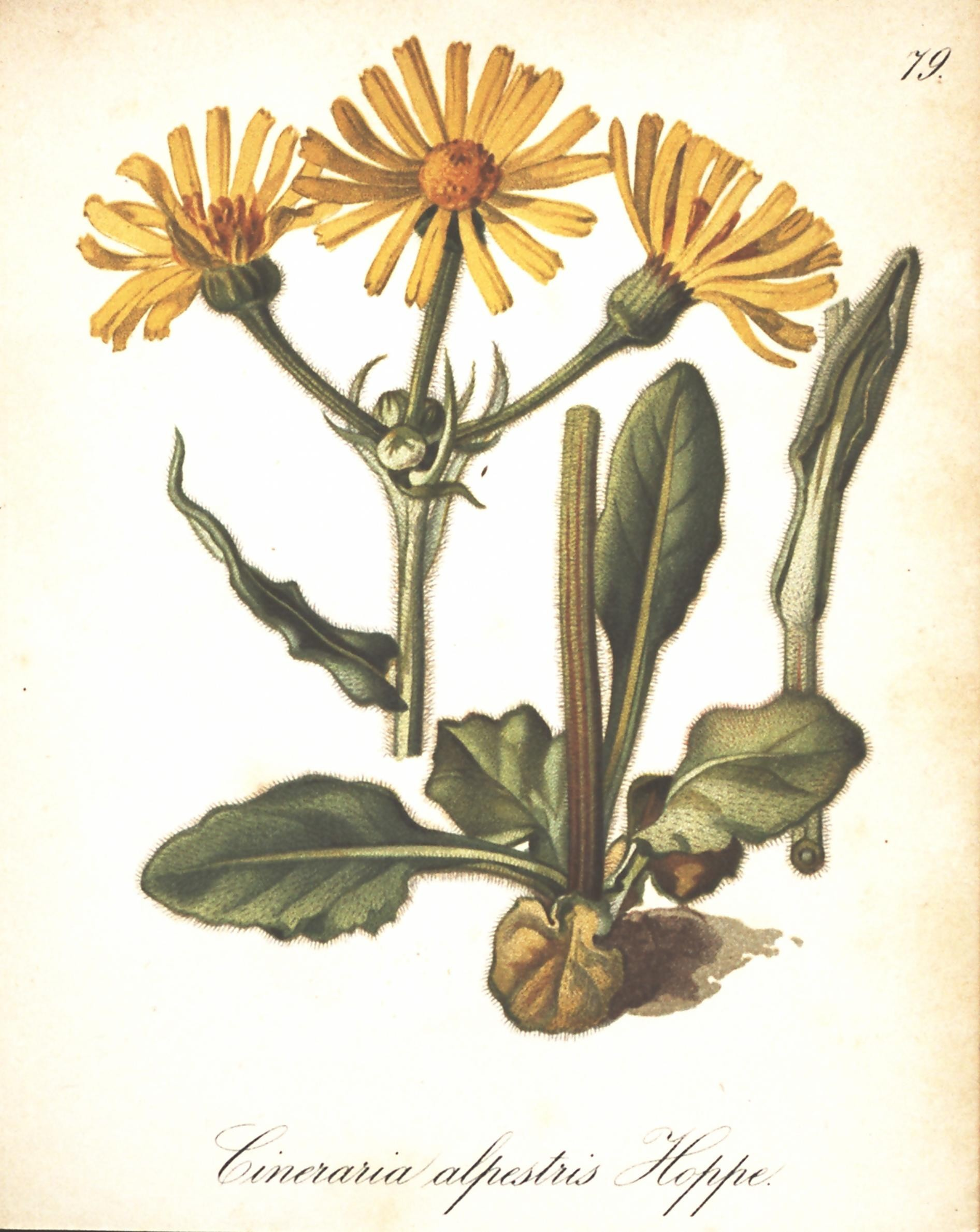 /,? f j ///f?s//'/f/ s//y/s.j//sj S/s////?.